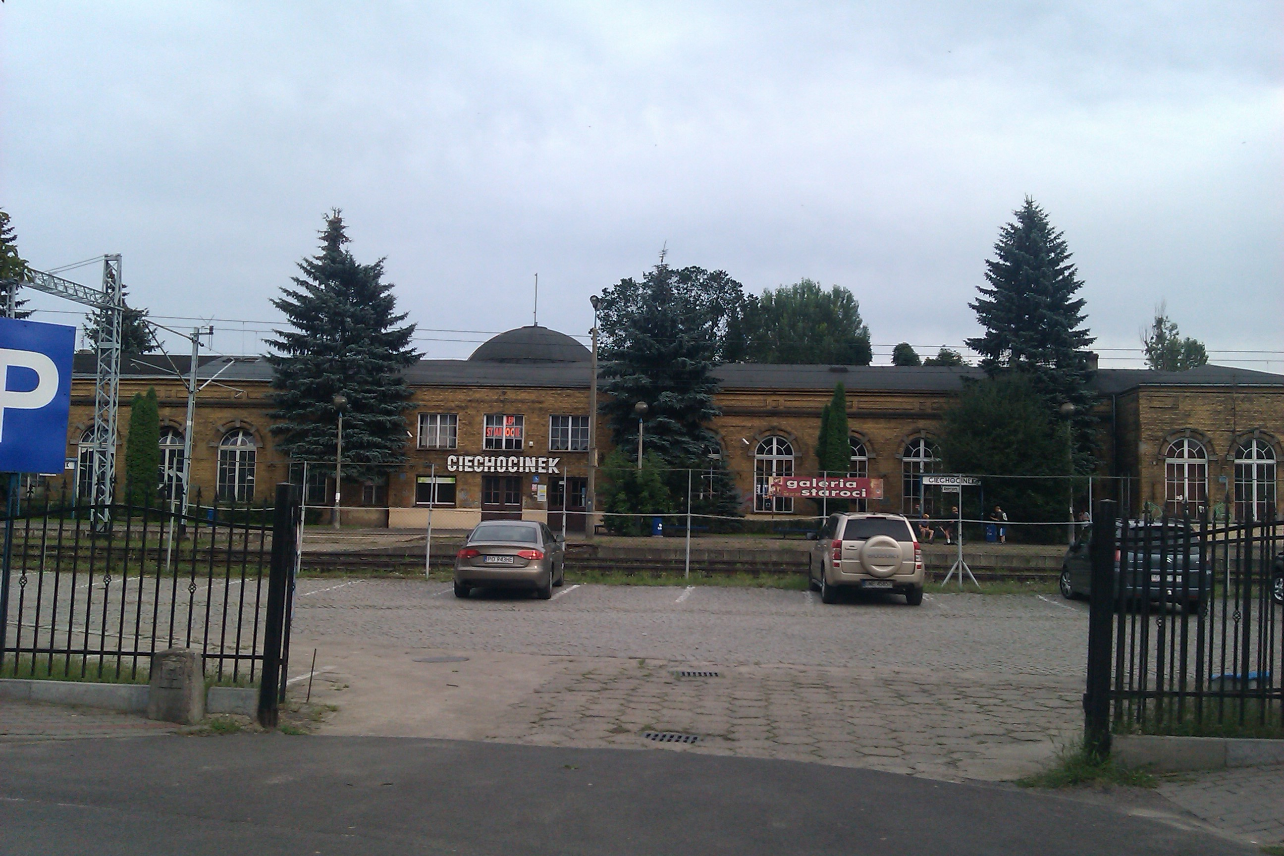 The back of trainstation Ciechocinek in Poland